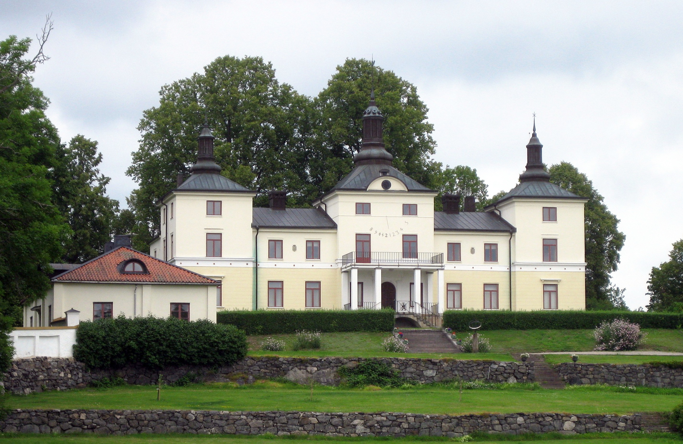 Stenhammar castle in Flen municipality, Sweden